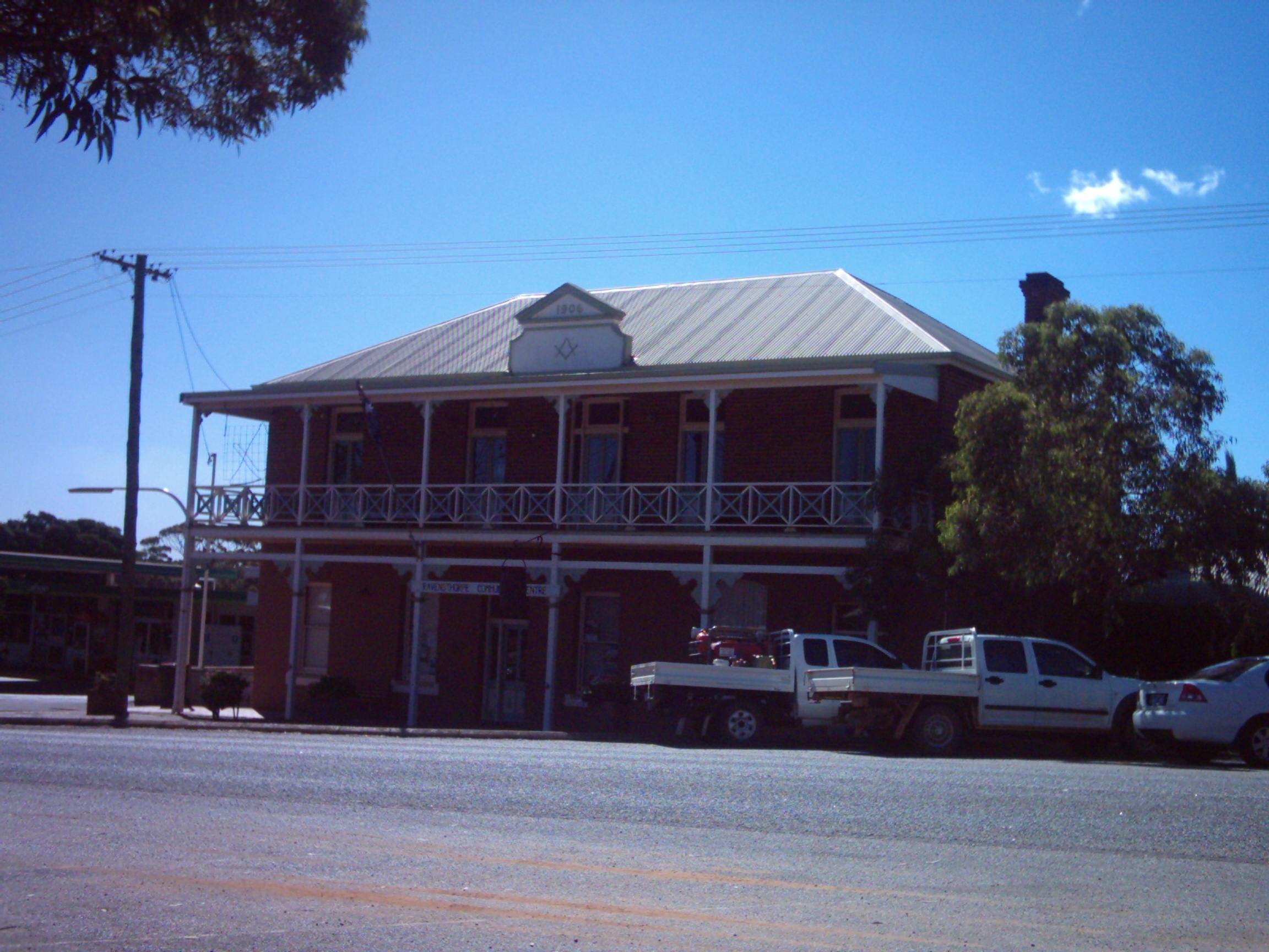 Ravensthorpe Community Centre, Raventhorpe WA.